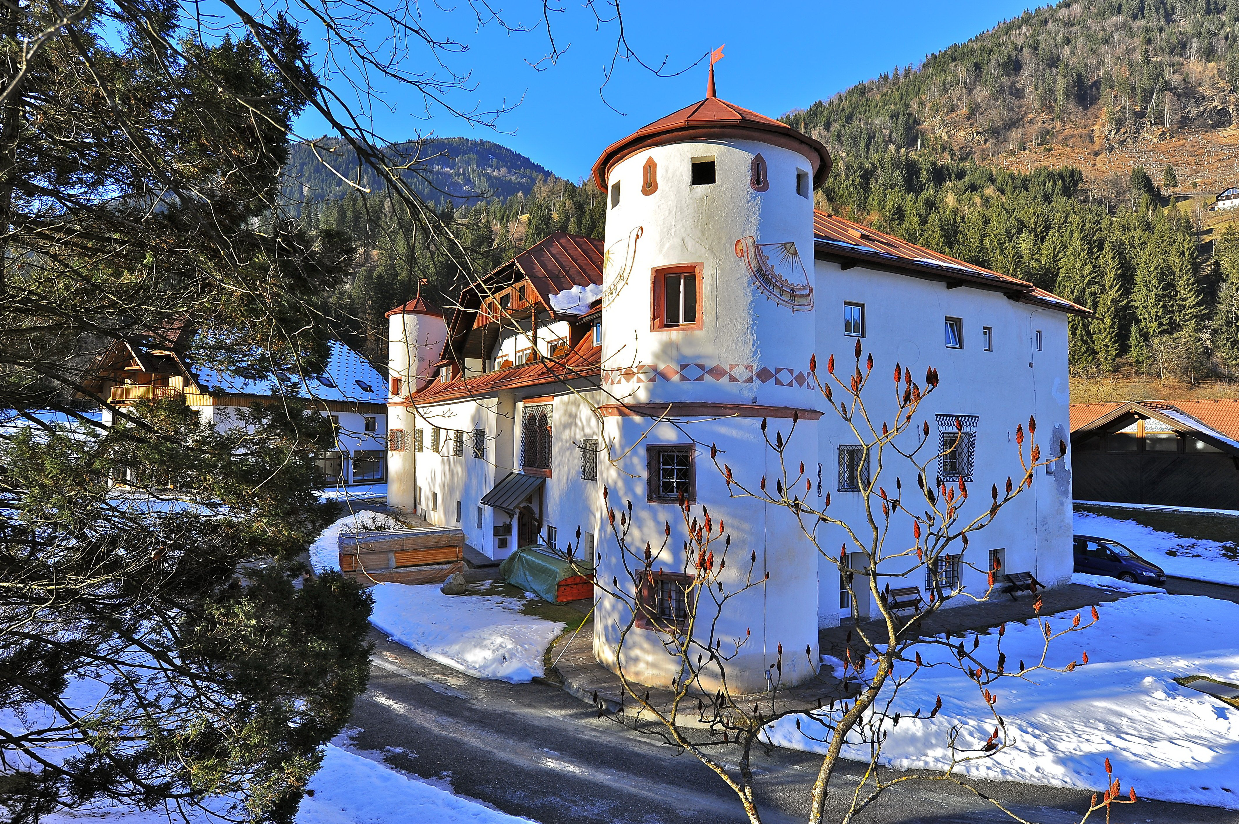 Castle Neustein, municipality Steinfeld, district Spittal an der Drau, Carinthia, Austria